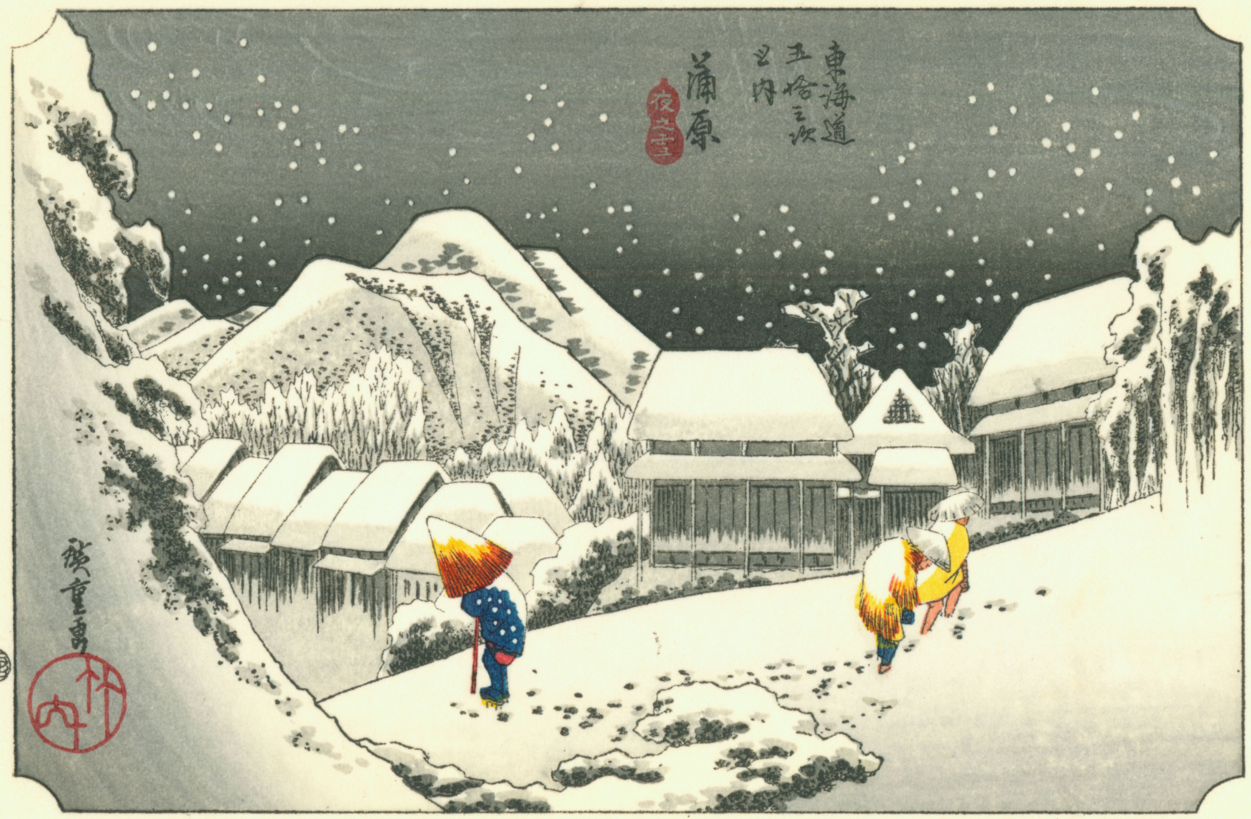 wood-block print, reproduction from a miniature edition by Takamizawa, Japan Title: Kanbara